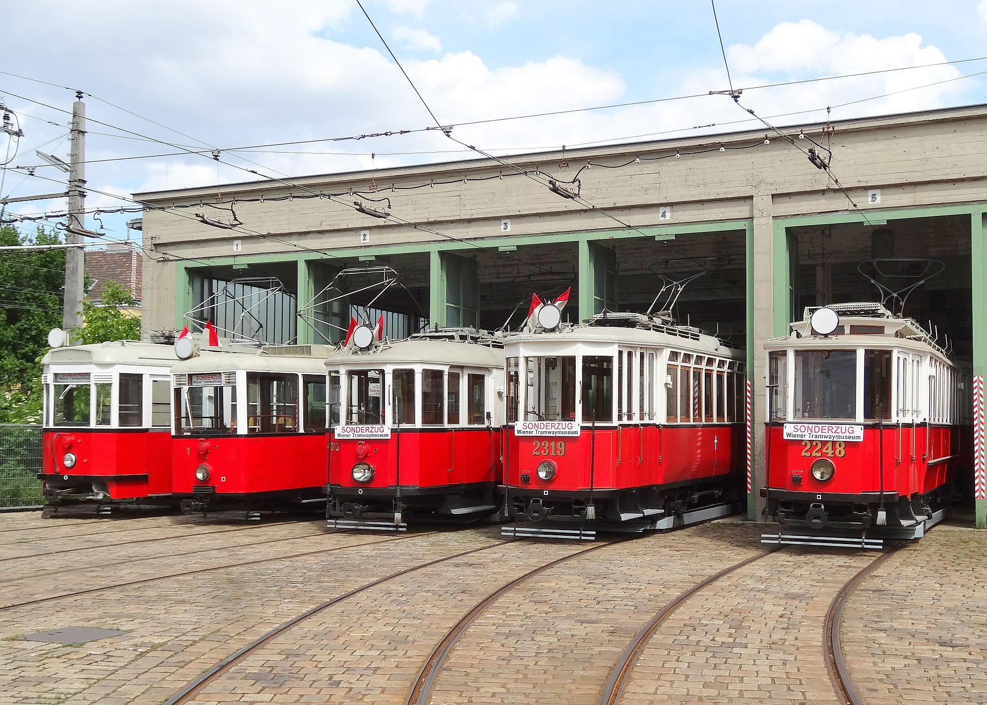 Exhibit a selection of historical streetcars of the Wiener Tramwaymuseum which are available for renting in front of depot Speising.